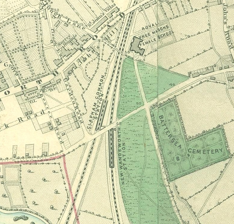 Clapham Common railway station and New Wandsworth railway station on Stanford's Map of London.